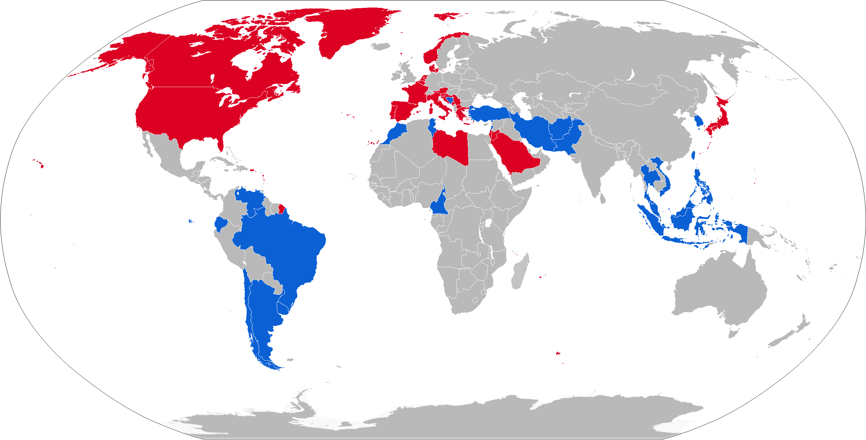 Map of M114 operators in blue with former operators in red